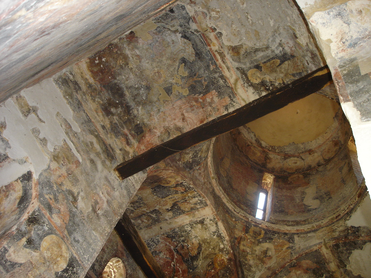 The interior of church Holly Mother of Zaum on Ohrid Lake, Macedonia